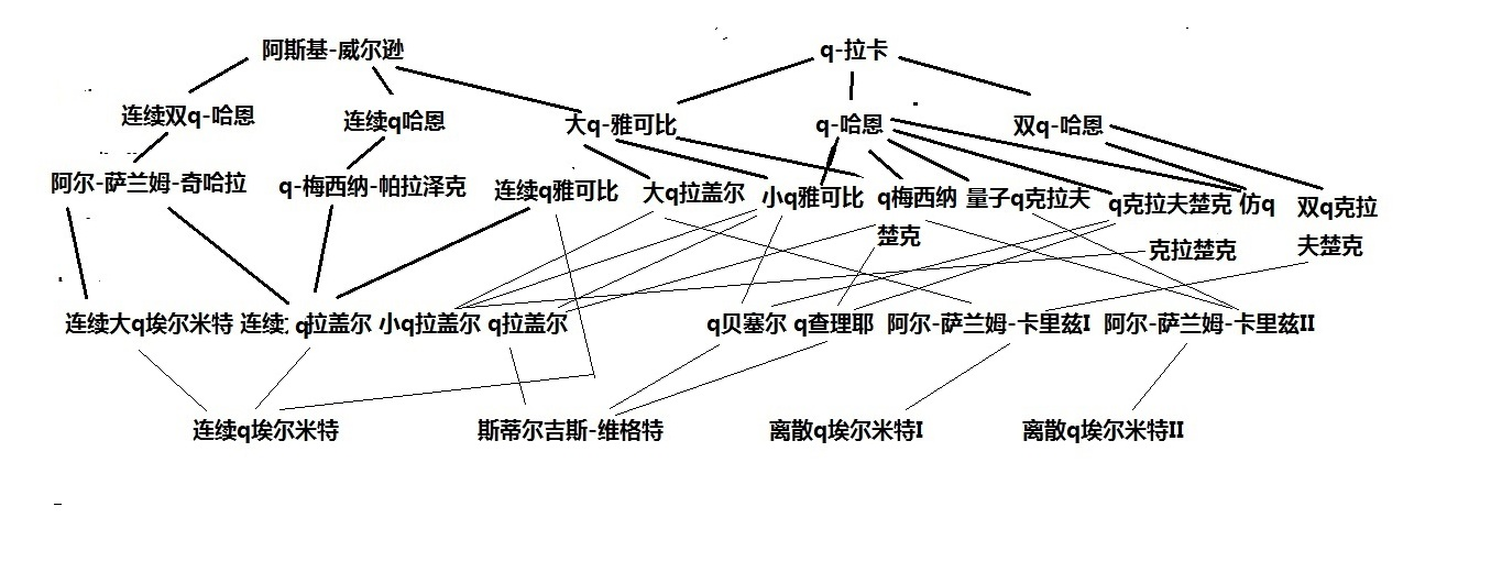 Basic Hypergeometric orthogonal polynomials scheme (in Chinese)